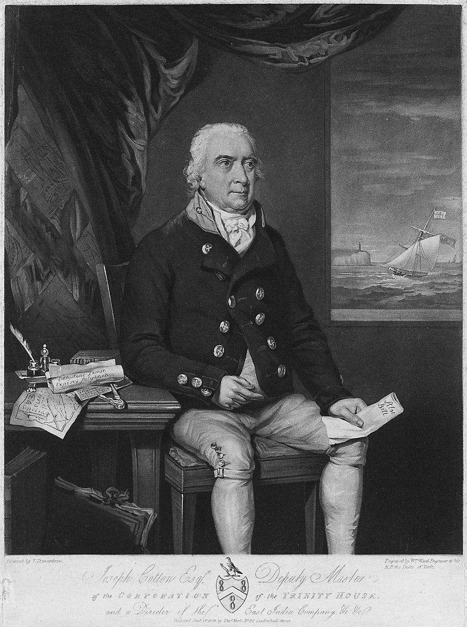 Portrait of Joseph Cotton (1746-1825)